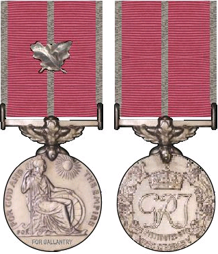 Medal of the Order of the British Empire for Gallantry also known as the Empire Gallantry Medal (EGM).